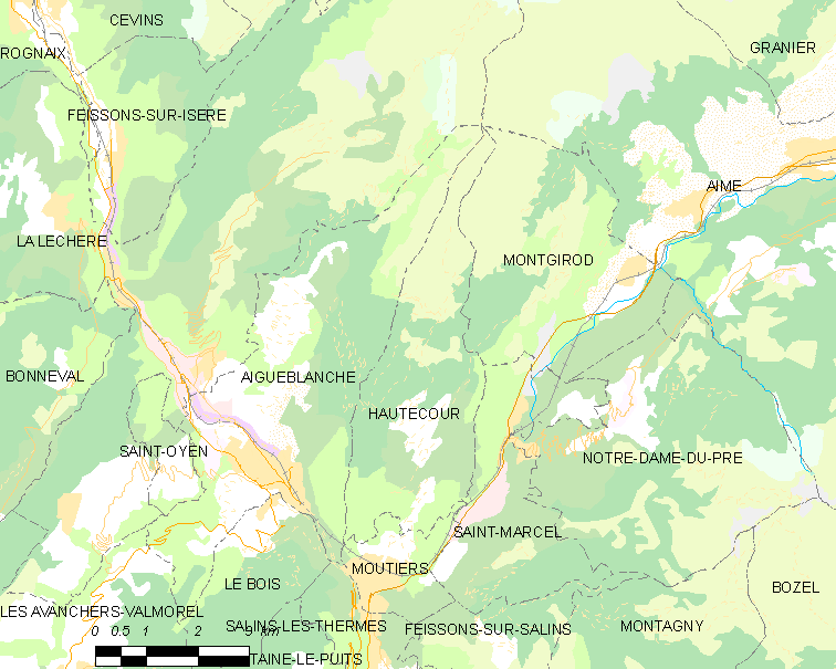 Map of French municipality